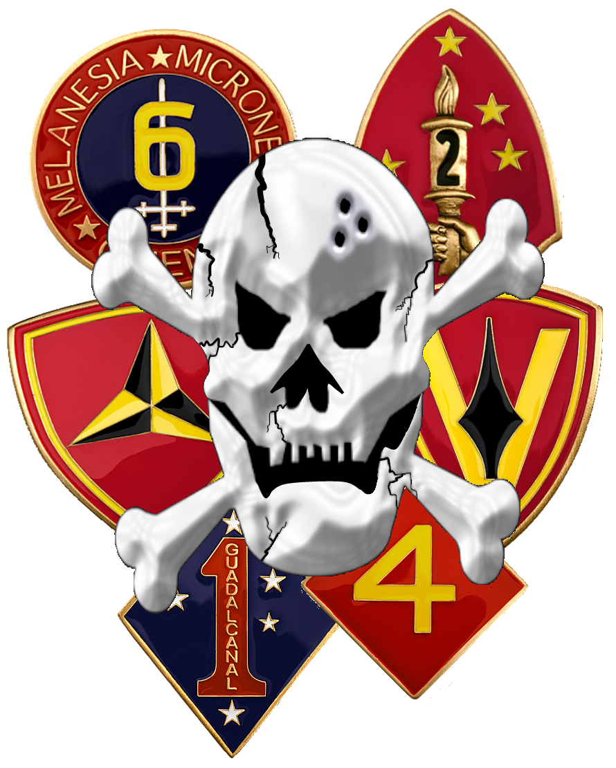 The recon Marines' trademark, the 'Skull and Crossbones'; with six US Marine divisions that contained a recon component, (1941—Present).